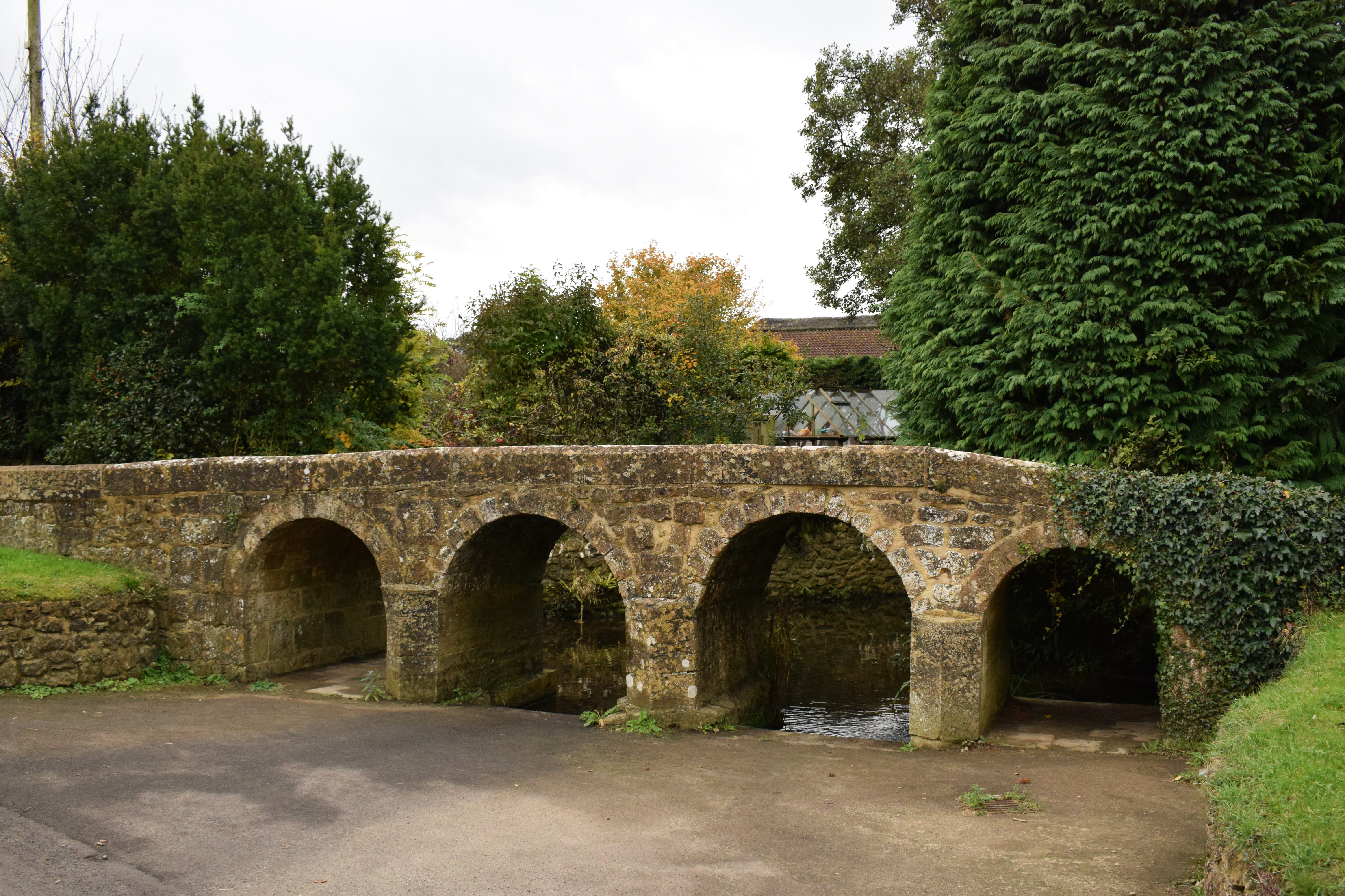 Dowlish Wake - Packhorse Bridge Wikidata has entry Q26648004 with data related to this item.